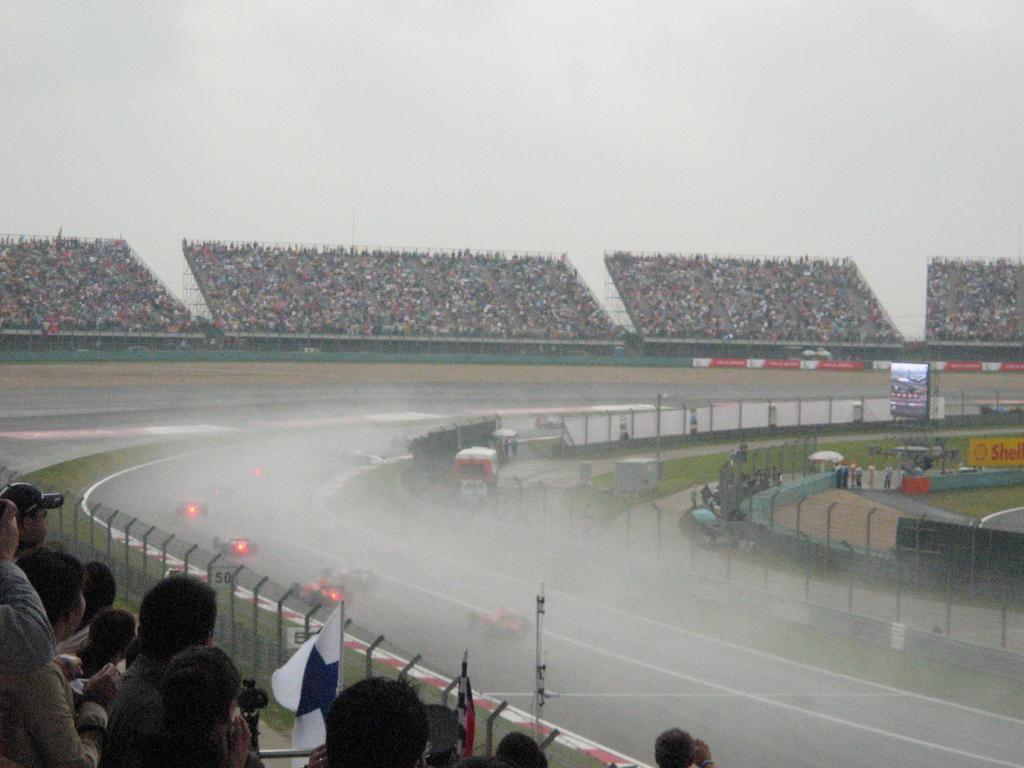 All the cars race to the first corner.